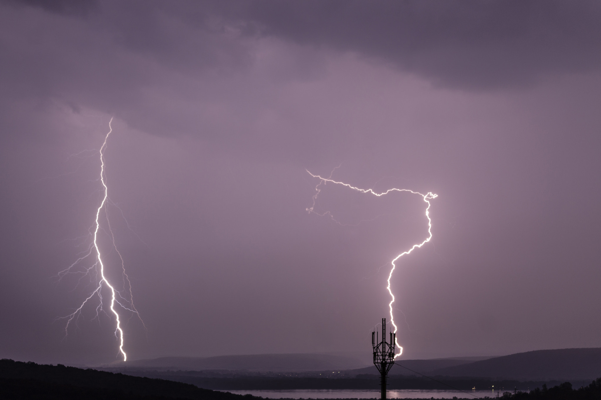 500px provided description: Force Of Nature [#lightning ,#long exposure ,#weather ,#storm ,#thunderstorm ,#thunder]